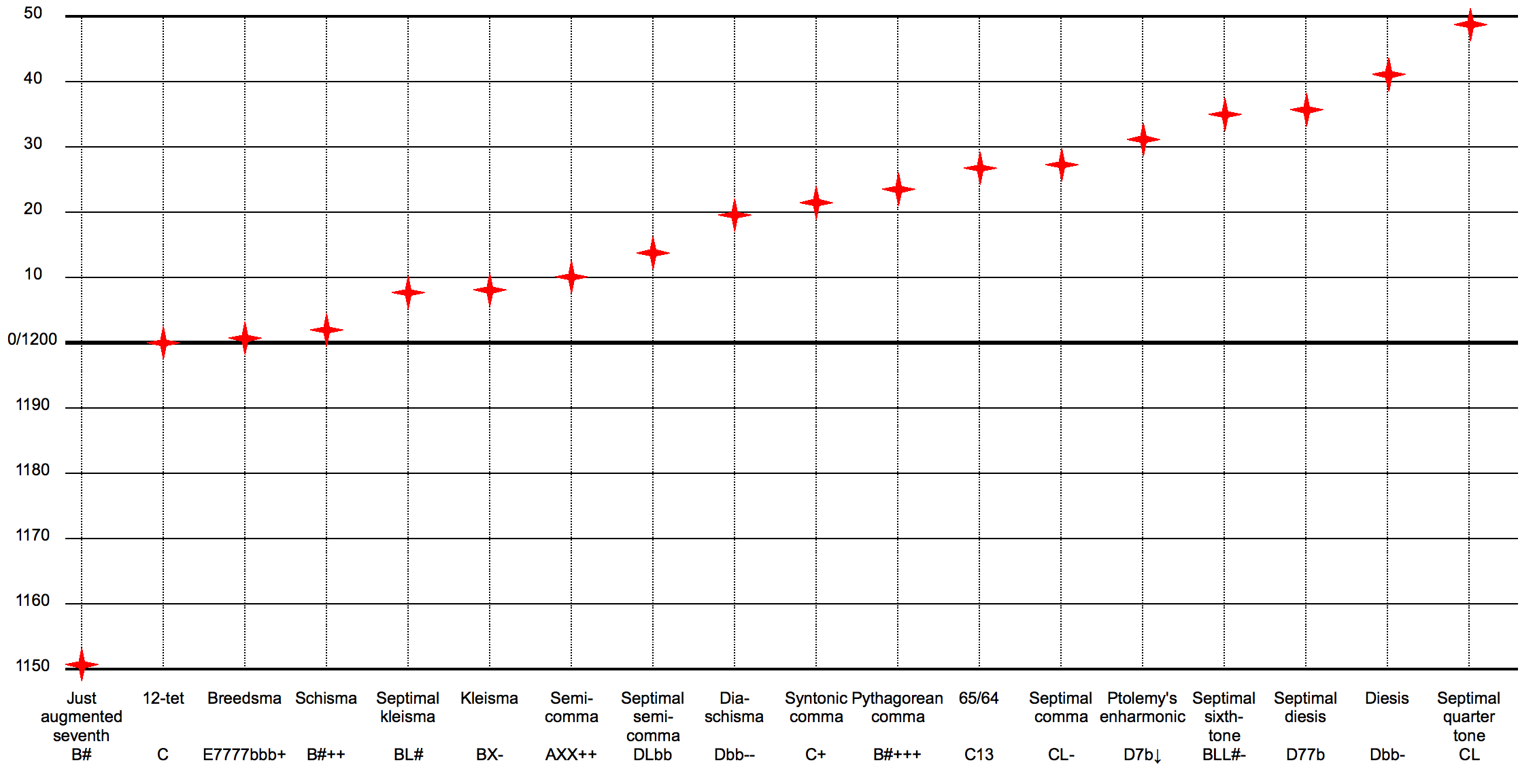 Comparison of notes derived from and near unison/octave. B♯ = 125 : 64 = 1158.94 C = B♯ = D = 0/1200 E♭+ = 2401 : 2400 = 0.72 B♯++ = 32805 : 32768 = 1.95 B♯ = 225 : 224 = 7.71 B- = 15625 : 15552 = 8.11 A++ = 2109375 : 2097152 = 10.06 D = 126 : 125 = 13.79 D-- = 2048 : 2025 = 19.55 C+ = 81 : 80 = 21.51 B♯+++ = 531441 : 524288 = 23.46 C = 65 : 64 = 26.84 C- = 64 : 63 = 27.26 D♭↓ = 56 : 55 = 31.19 B♯- = 50 : 49 = 34.98 D♭ = 49 : 48 = 35.70 D- = 128 : 125 = 41.06 C = 36 : 35 = 48.77